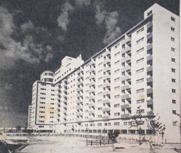 Rosita De Hornedo building. 1st street. between 0 and 2; Corner of O, Playa, Havana, Cuba